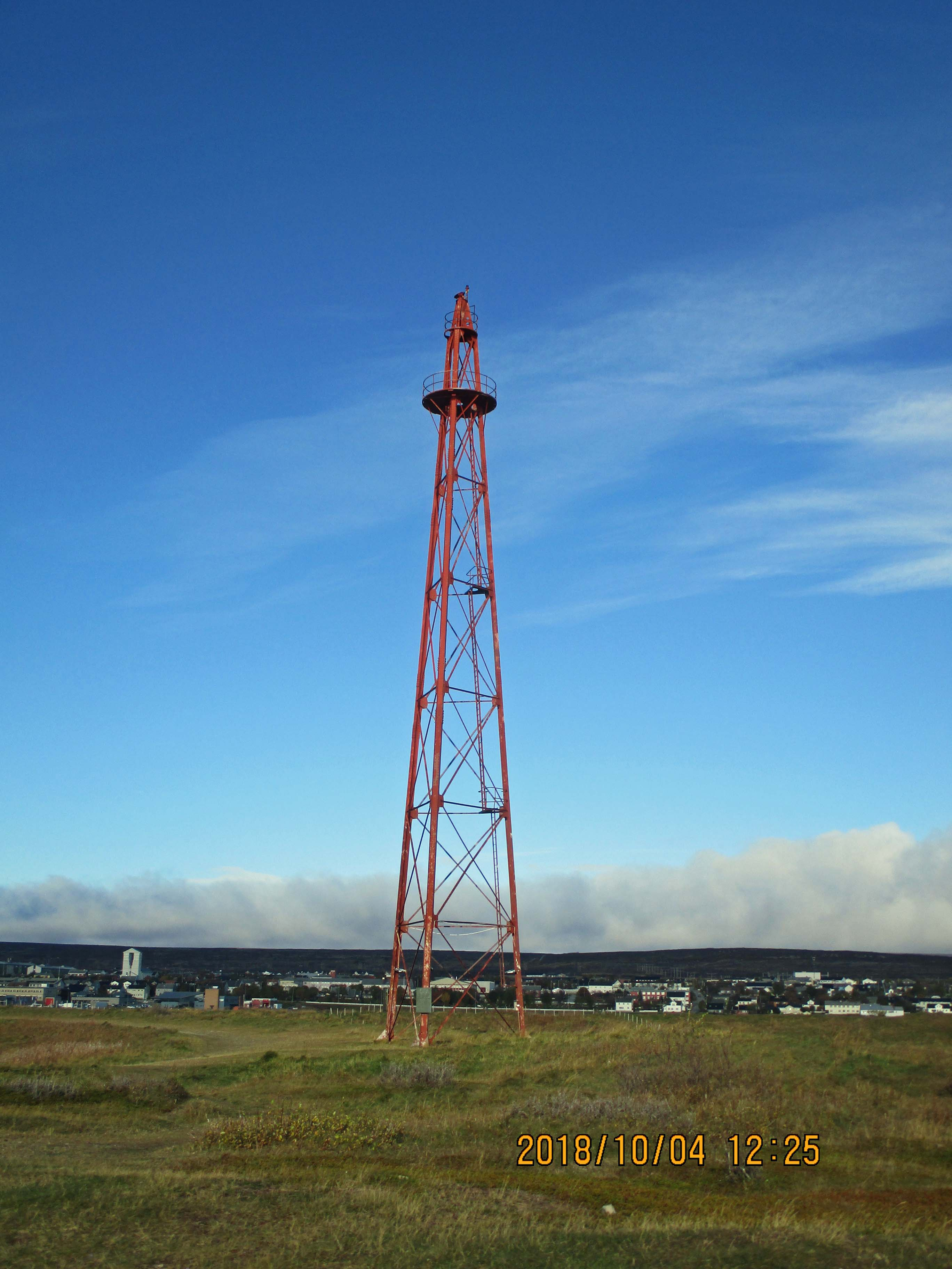 Vadsø airship mast, one of the oldest remaining original airship masts on the European continent.